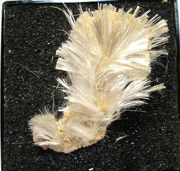 Halotrichite Locality: Golden Queen Mine, Soledad Mt., Golden Queen District, Kern County, California, USA (Locality at ) Size: 4.7 x 2.6 x 1.4 cm. A beautiful miniature of this asbestos-like hydrated sulfate. Ex. Martin Zinn Collection.